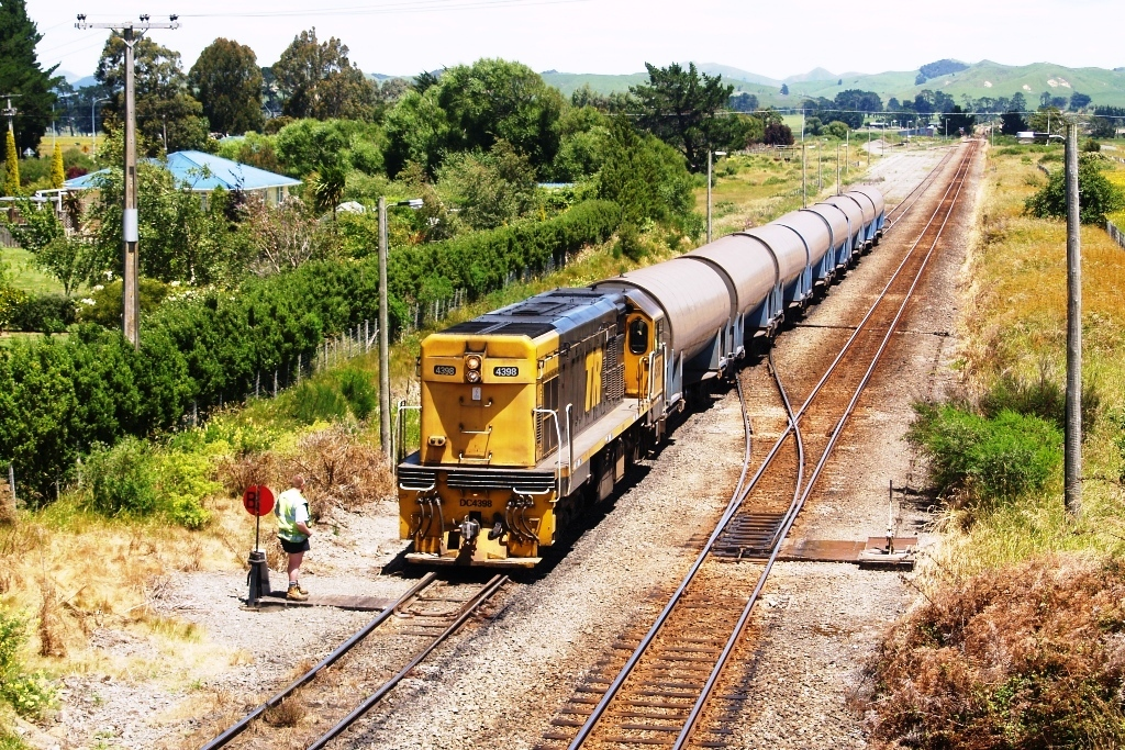 DC4398 shunts milk tanks at Oringi 11th Decemmber 2008